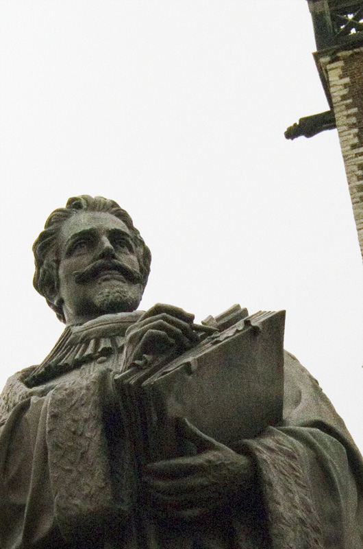 Statue of Hugo Grotius in Delft (1886) by Franciscus Leonardus Stracké (1849-1919)